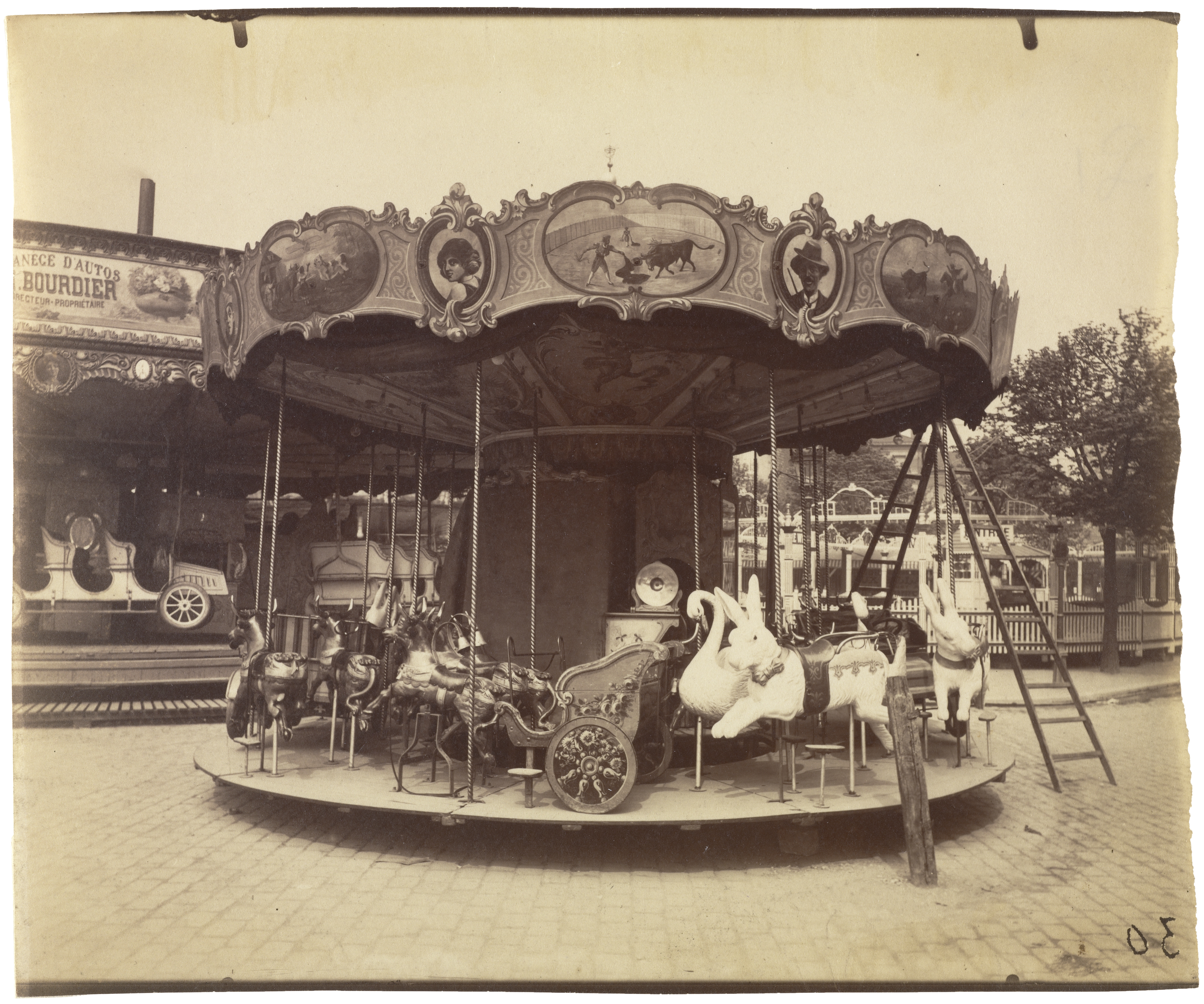 The carousel is in the exact center of the image; an equal amount of sky and ground surrounds it. Like many of the figures who were captured in Eugène Atget's photographs, the bow-tied bunny at the right appears to be eyeing the photographer cautiously and curiously as Atget goes about recording him. The pleasure spectacle of the carnival ride is made ordinary by the ladder visible at the right toward the back of the ride. Carnivals were usually traveling shows, stopping for only a short while before moving on to the next town, and this attraction was probably still being assembled when Atget came upon it and set his tripod down. The two small, half-oval marks along the top of the print come from the clips that held the glass negative plate in place in the back of the camera. They appear in many of Atget's prints and serve as a kind of trademark, even though they may look like a mistake.